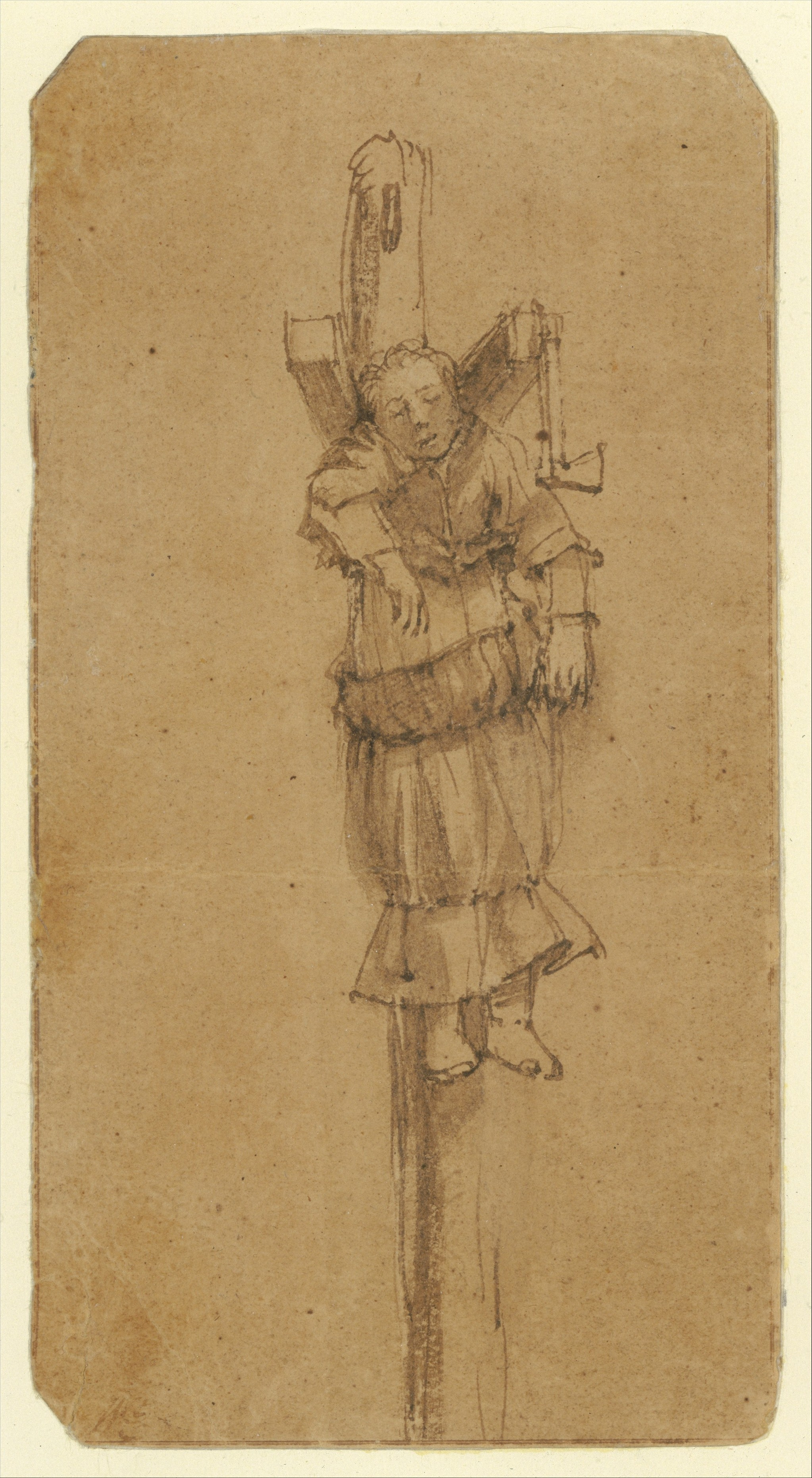 Elsje Christiaens, drawing with pen and brush (17 × 9 cm) by Rembrandt